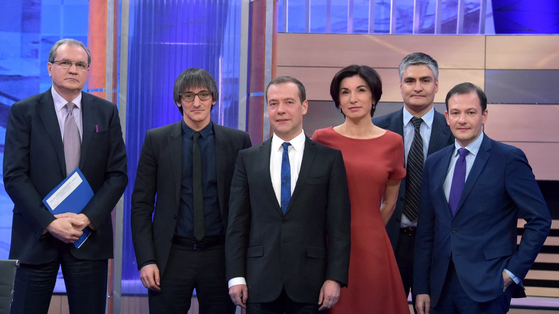 Dmitry Medvedev's interview with Russian journalists